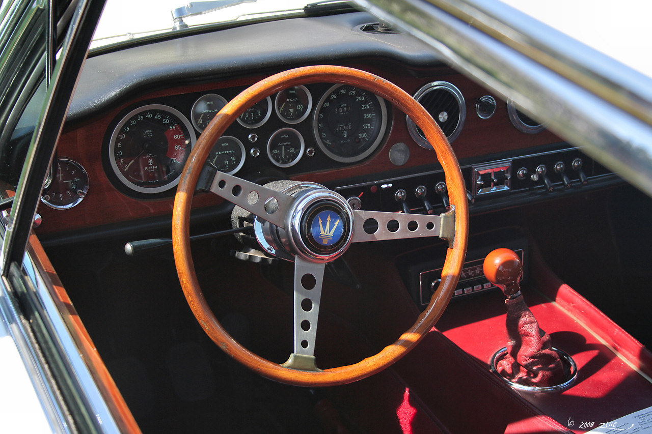 1968 Maserati Mexico. 2008 Desert Classic Concours d'Elegance Palm Springs.